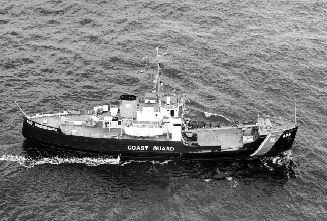 USCGC Iris underway, date unknown